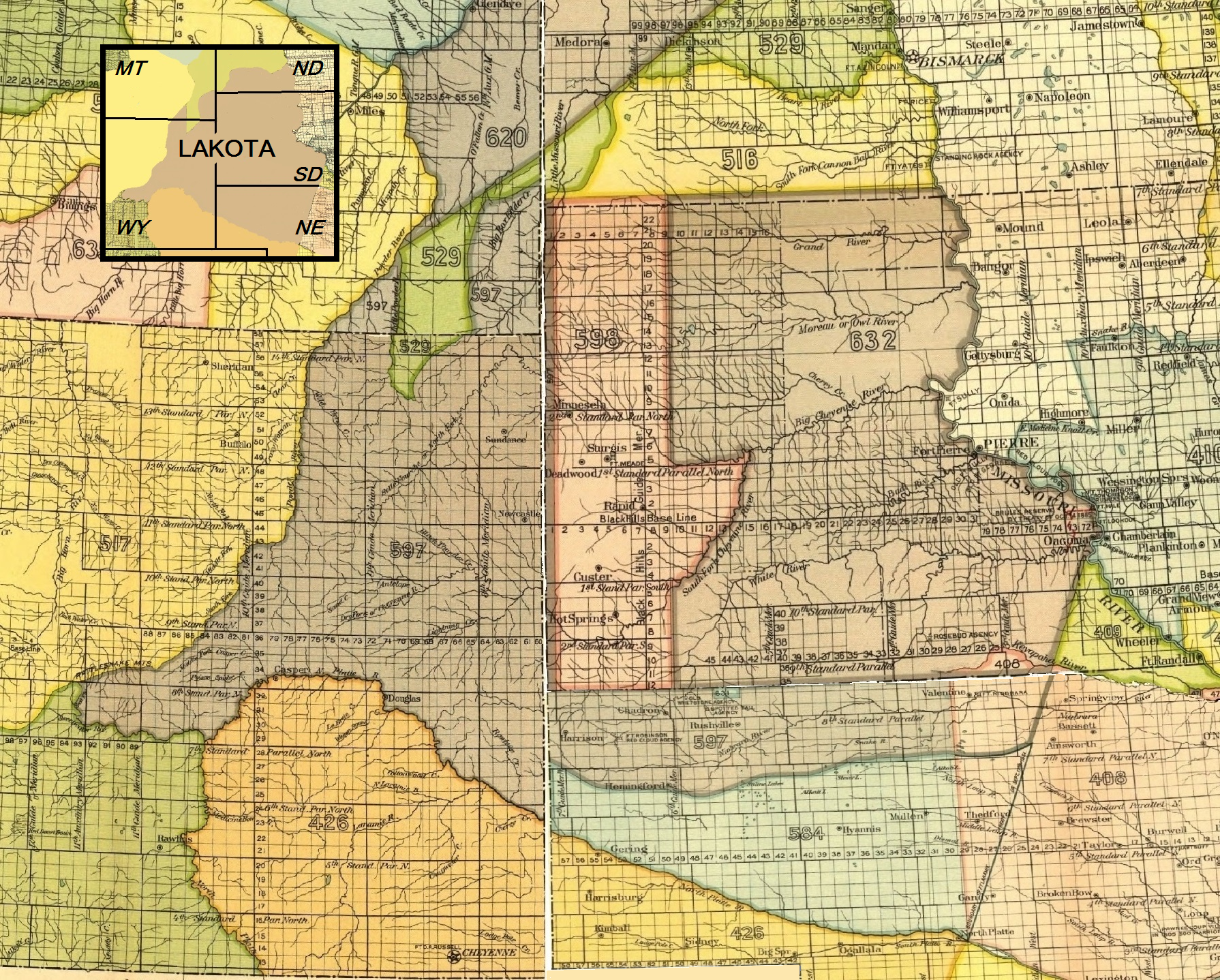 Map indicating the Lakota (Sioux) Indian territory as described in the Treaty of Fort Laramie (1851)